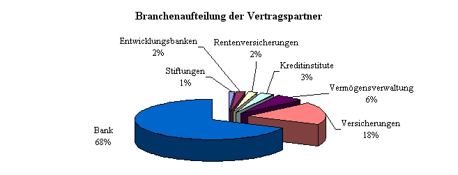 Branchenaufteilung der Teilnehmer am UNEP FI Programm